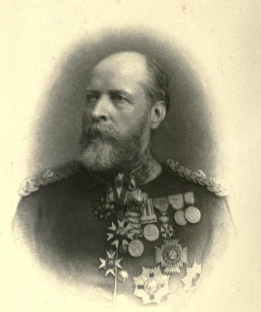 Edward Bruce Hamley, British general and military writer and Conservative politician.